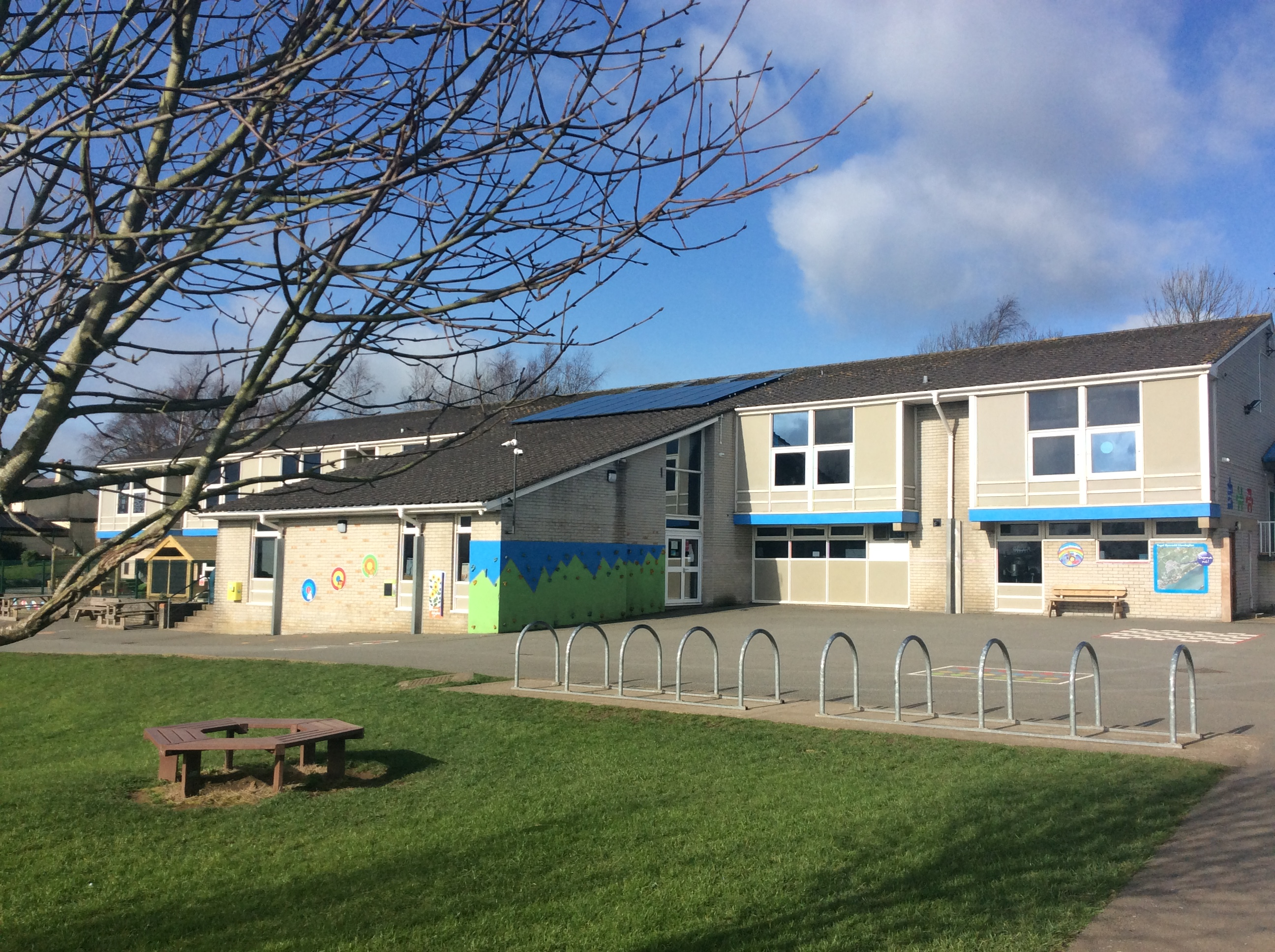 Llandegfan Primary School